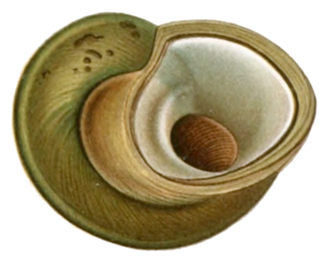 Drawing of an umbilical view of the shell of Potamolithus rushii.